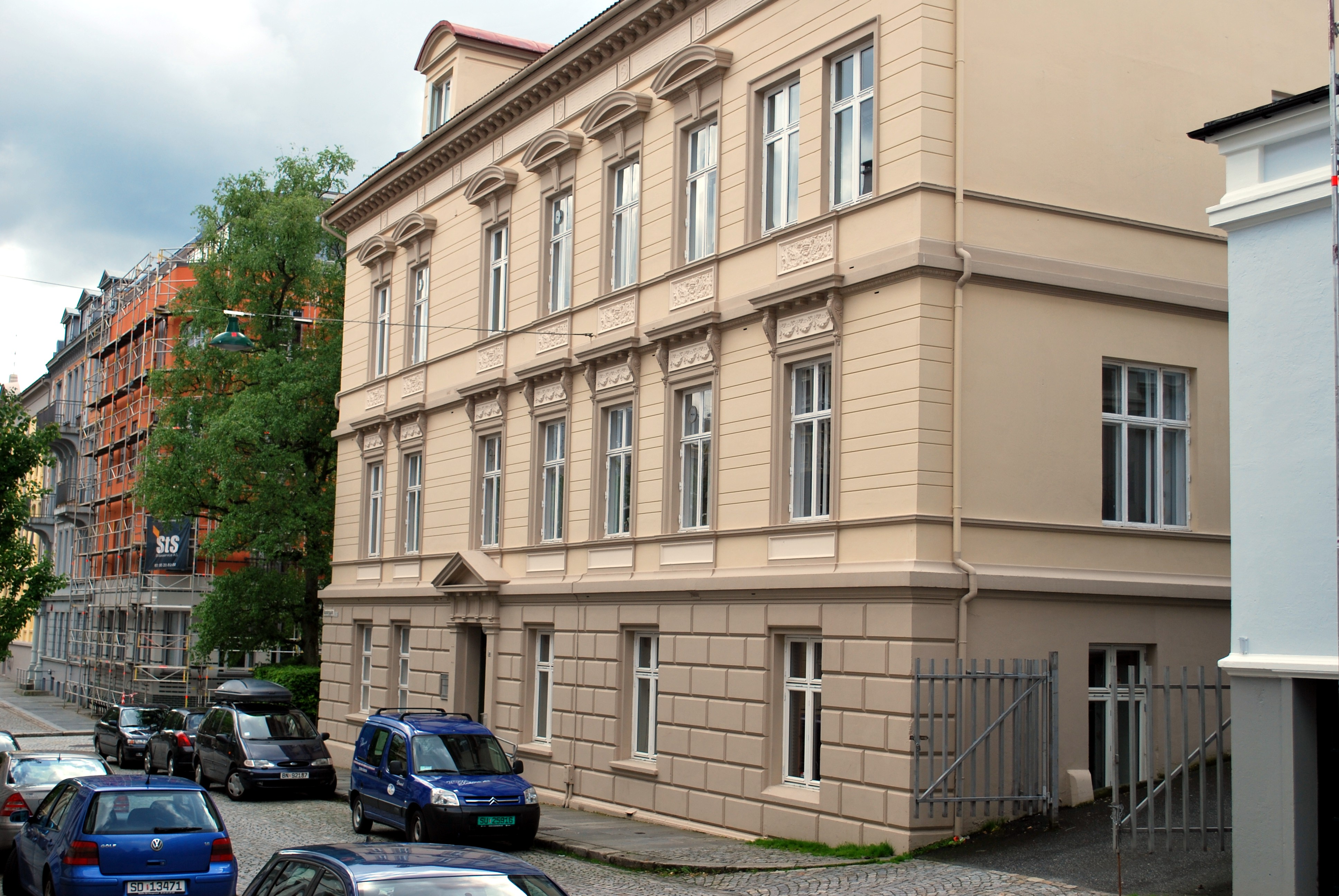 Ørjar Øyens hus, Department of Sociology, University of Bergen, Norway. Street address: Rosenbergsgt. 39.